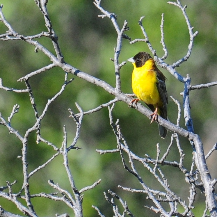 Black-headed Bunting Emberiza melanocephala, male. Ürgüp, Nevşehir, Turkey.